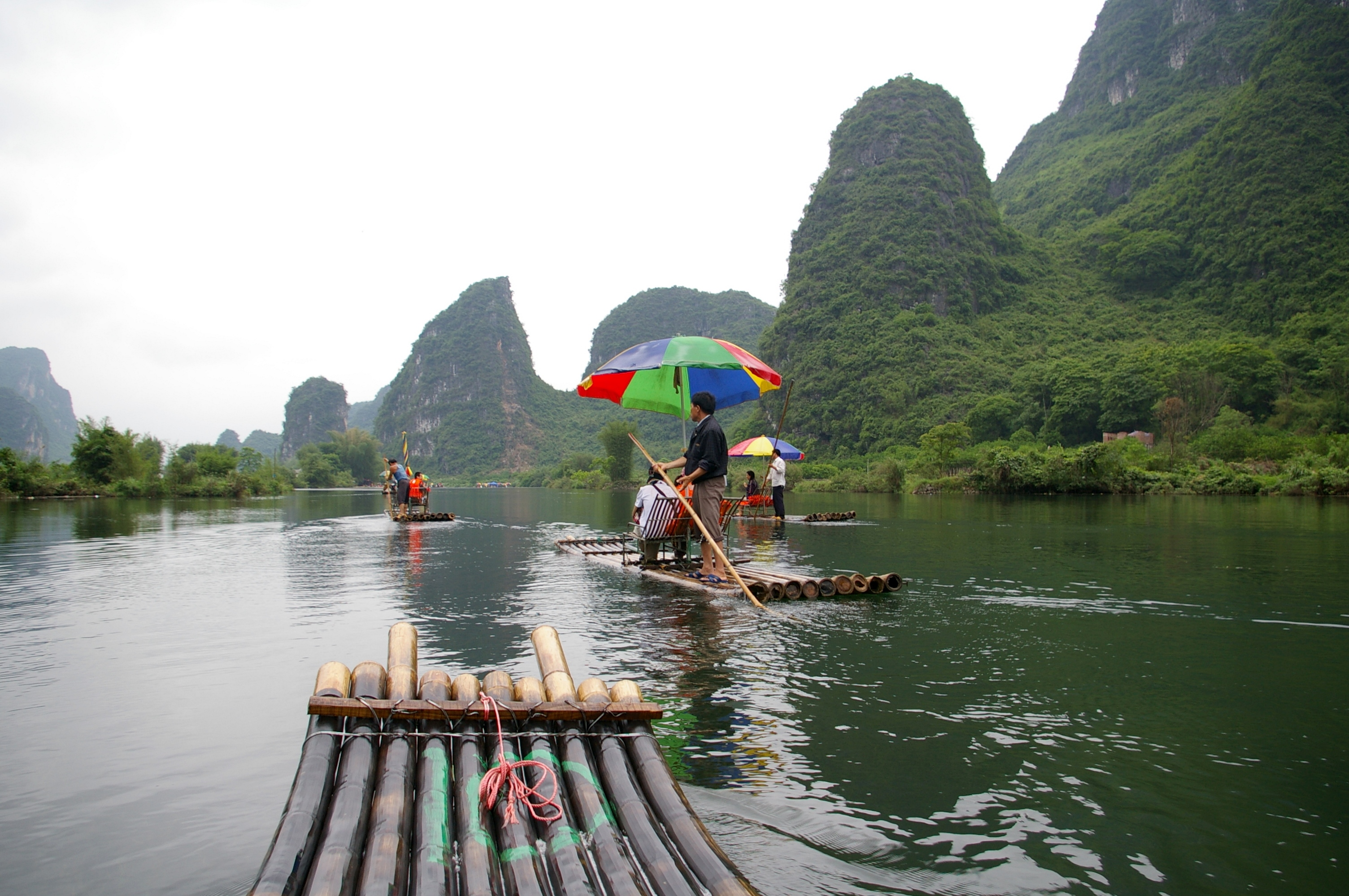 Yulong River near Yangshuo